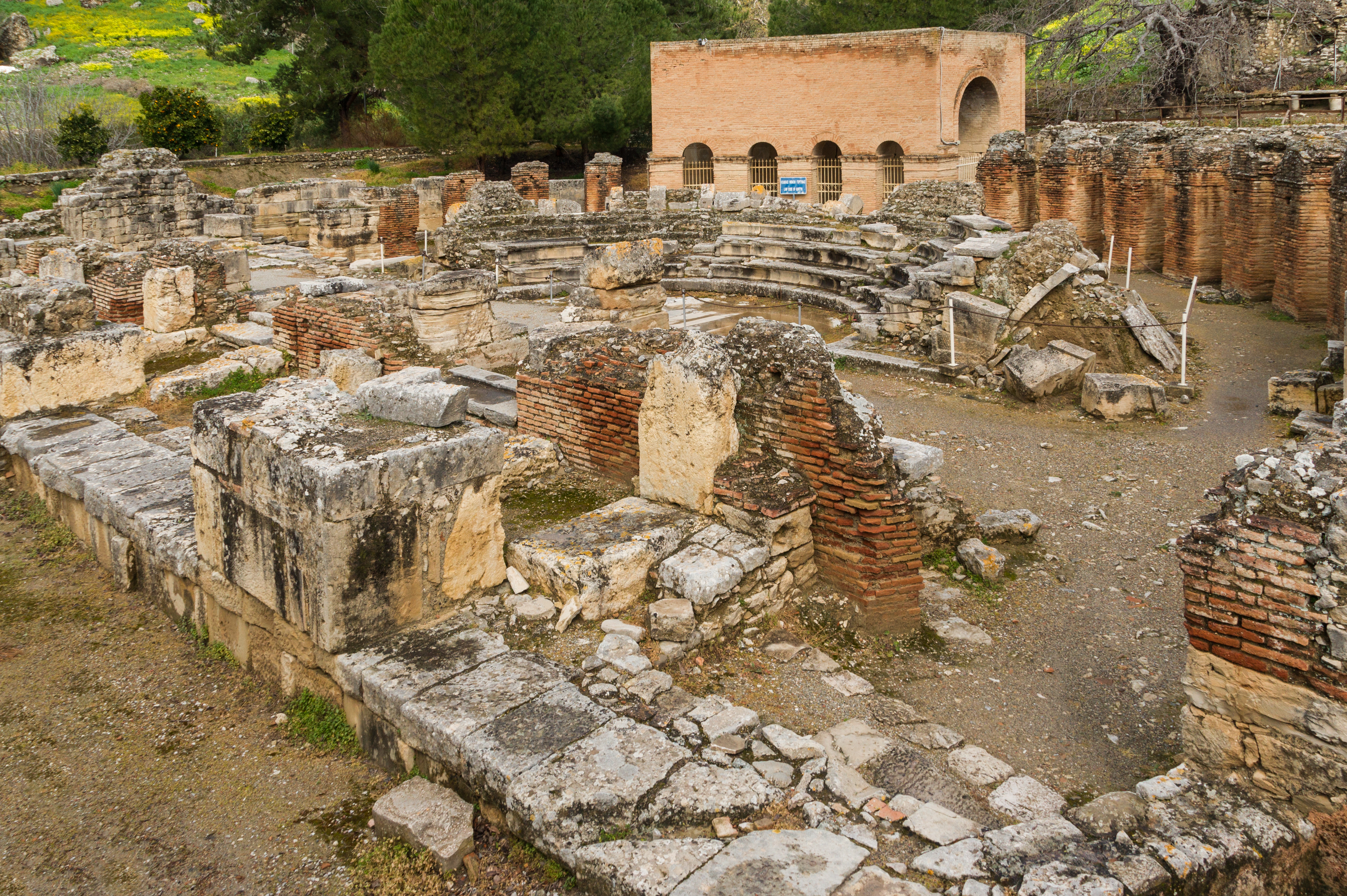 The excavations site of Gortys, the Odeon. Crete, Greece.